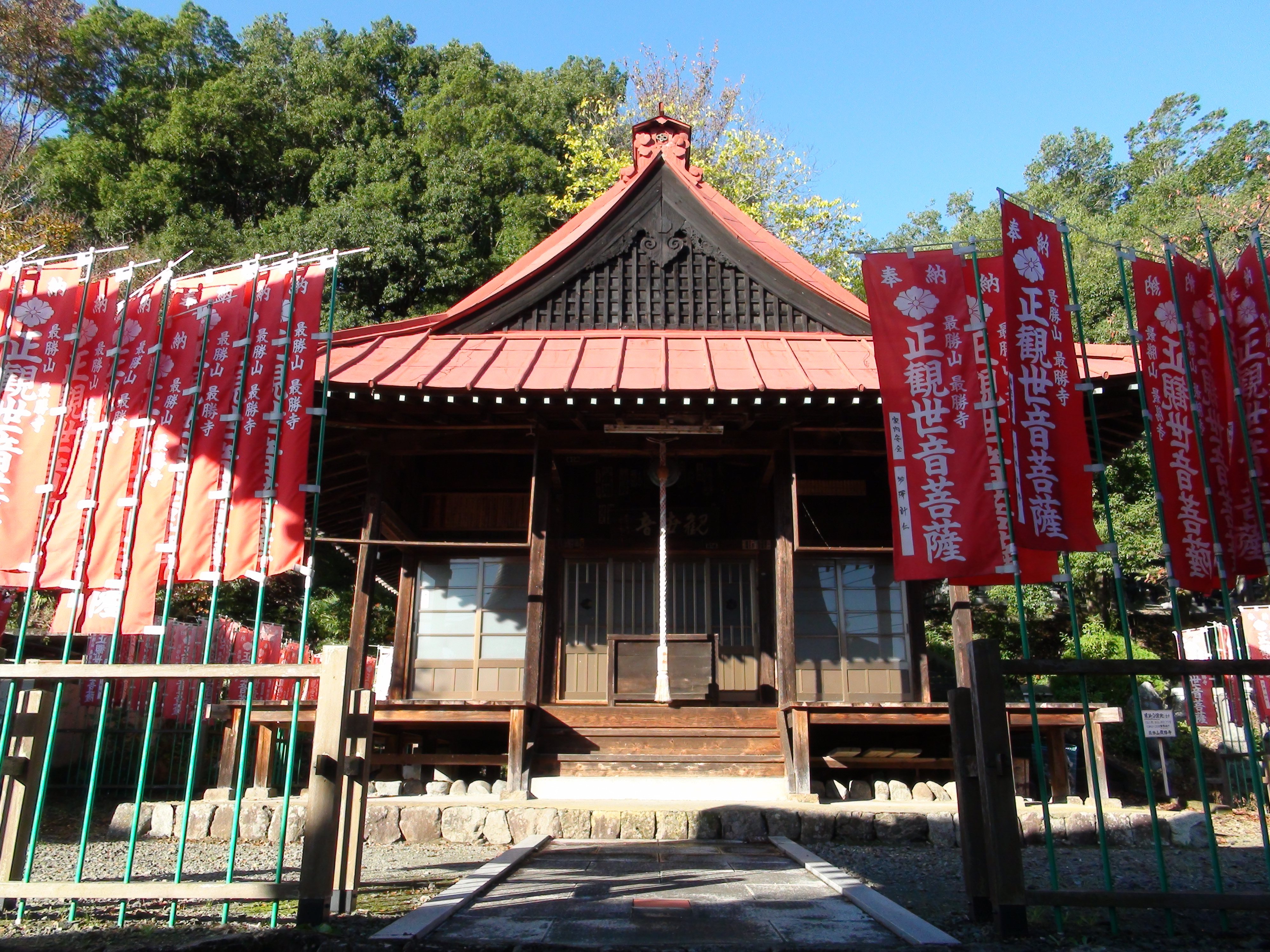 Saishoji Kannondo Fujikawa Yamanashi